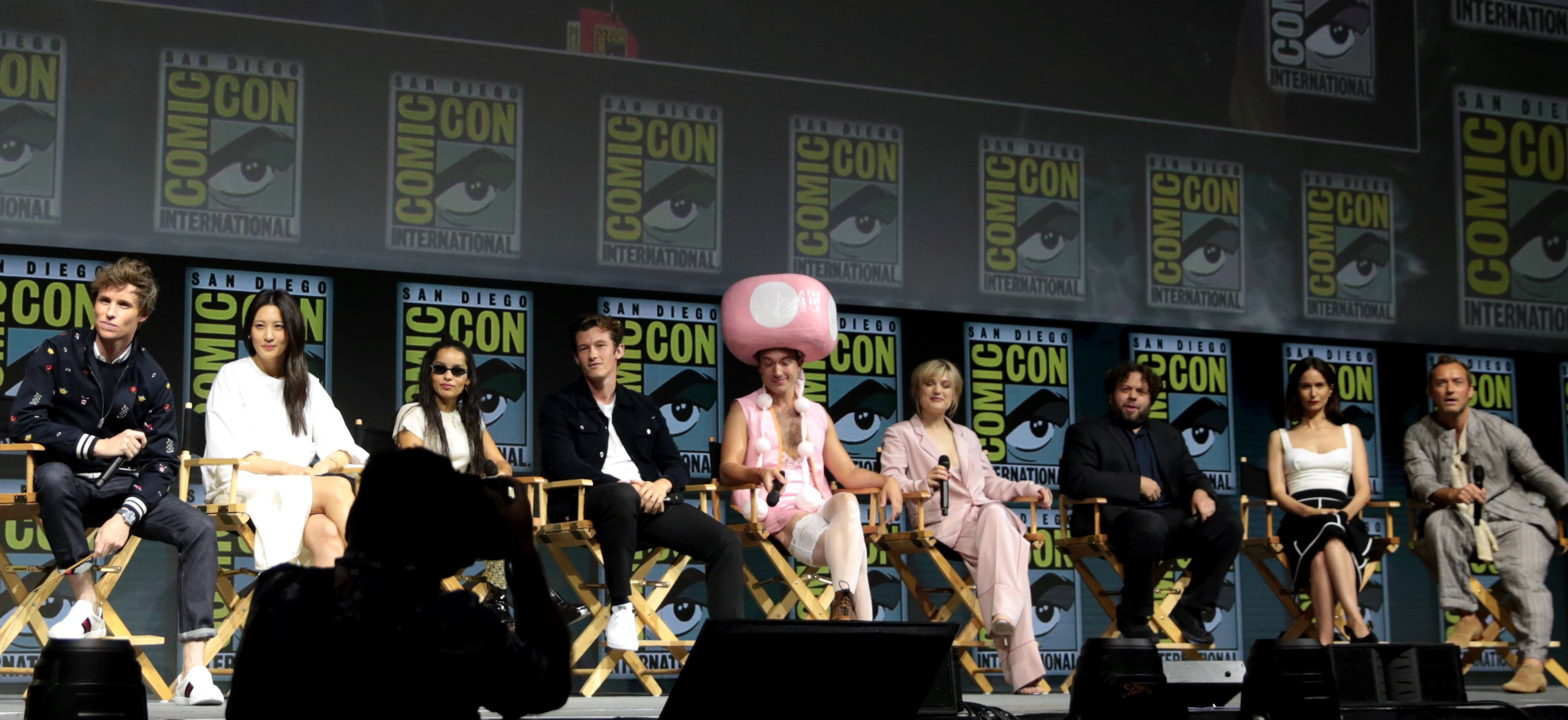 Aisha Tyler, Eddie Redmayne, Claudia Kim, Zoë Kravitz, Callum Turner, Ezra Miller, Alison Sudol, Dan Fogler, Katherine Waterston and Jude Law speaking at the 2018 San Diego Comic Con International, for "Fantastic Beasts: The Crimes of Grindelwald", at the San Diego Convention Center in San Diego, California.